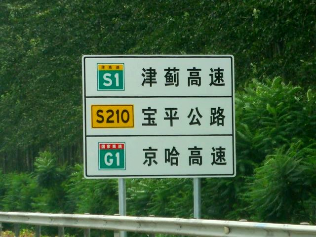 Tianjin freeway signage showing new number system